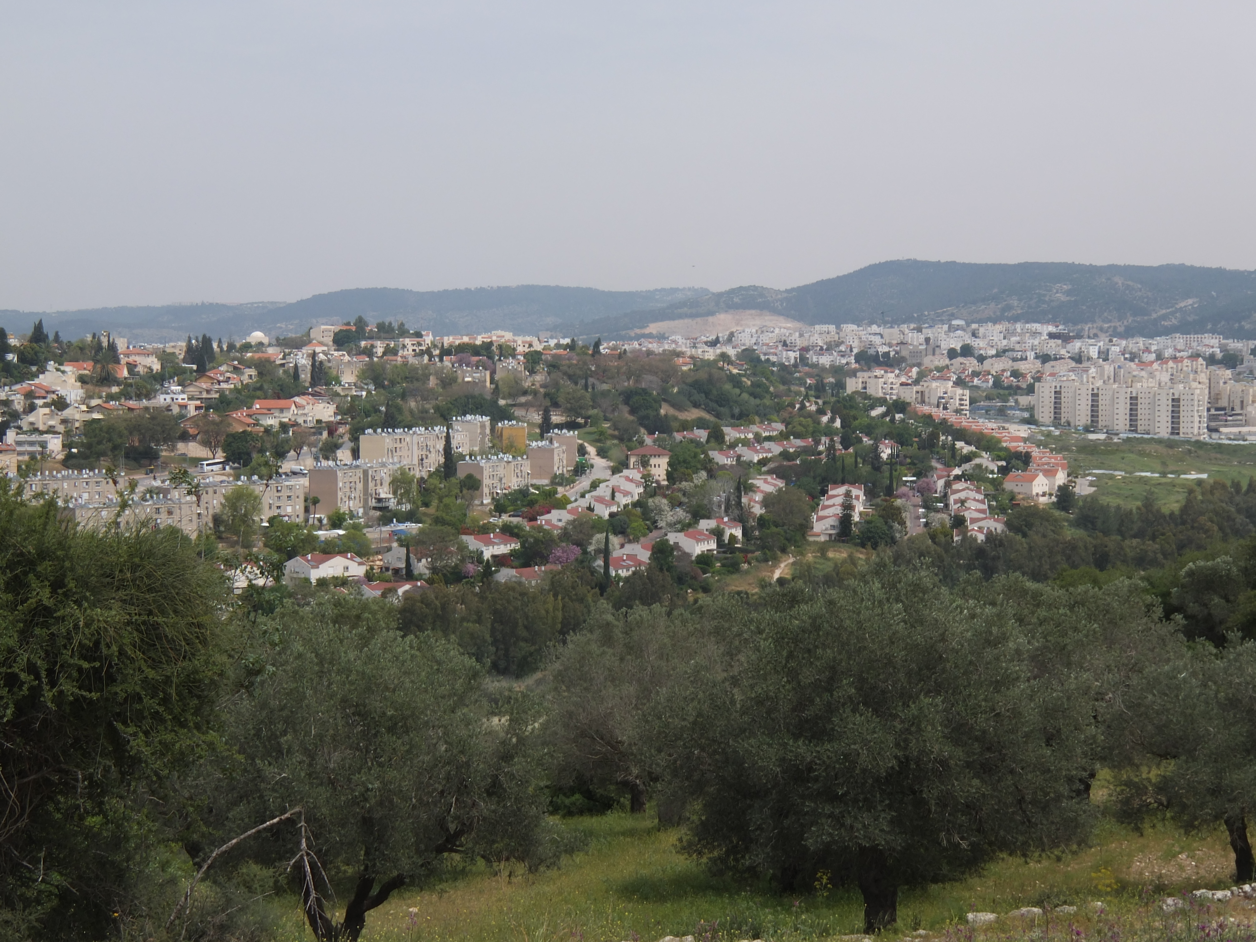 Beit Shemesh from the southwest